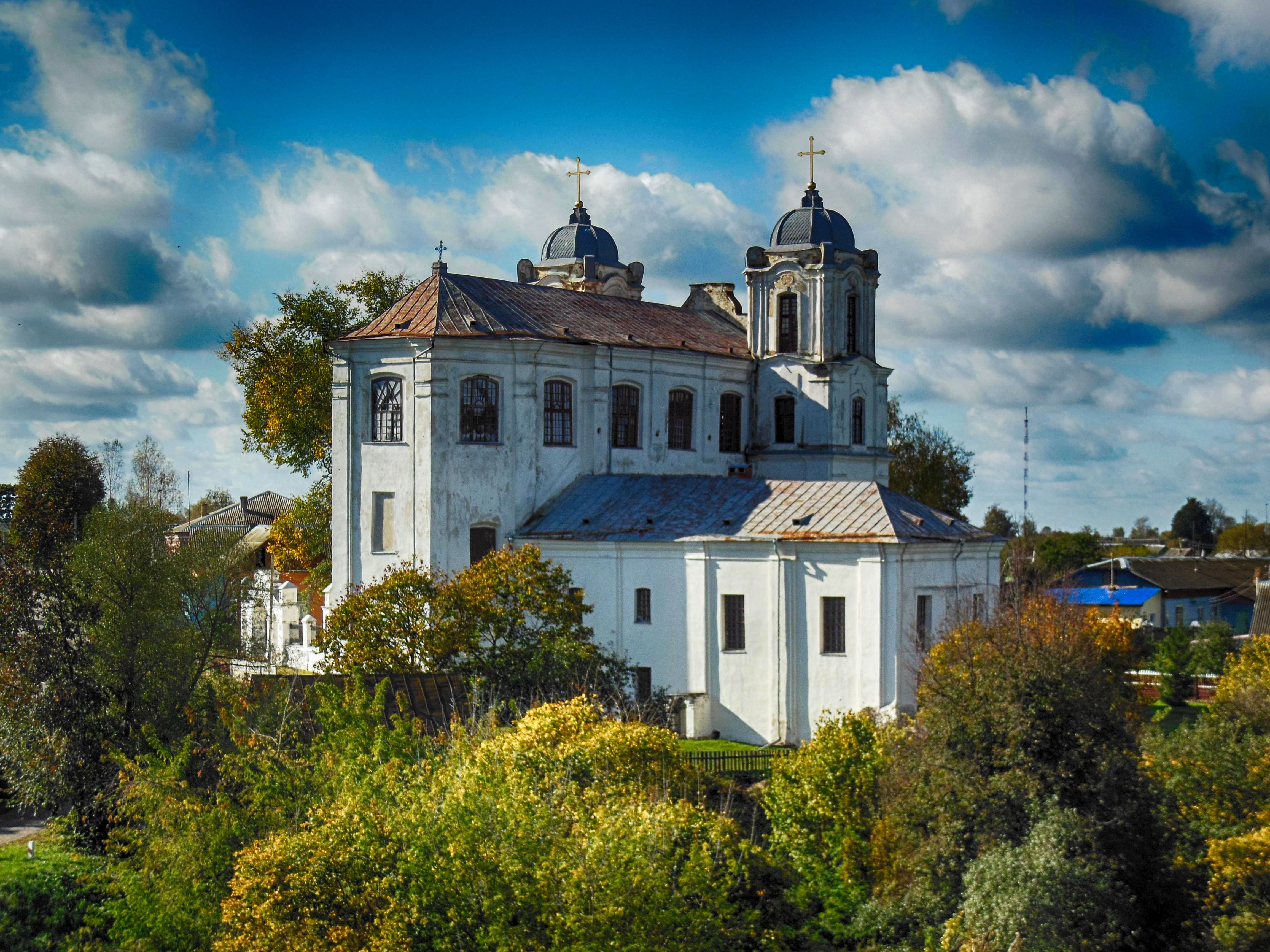 Church of the Assumption of the Blessed Virgin Mary in Mscislaŭ, Belarus This is a photo of Belarusian heritage monument. Reference number: 511Г000504 ( WLM)